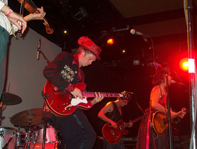 James "Jimbo" Mathus performing with the Squirrel Nut Zippers at the Independent in San Francisco on August 12, 2008.